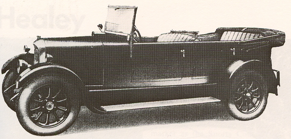 1928 Hampton 12/40 hp